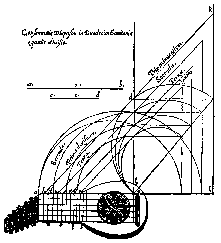 geometrical demonstration of Equal temperament